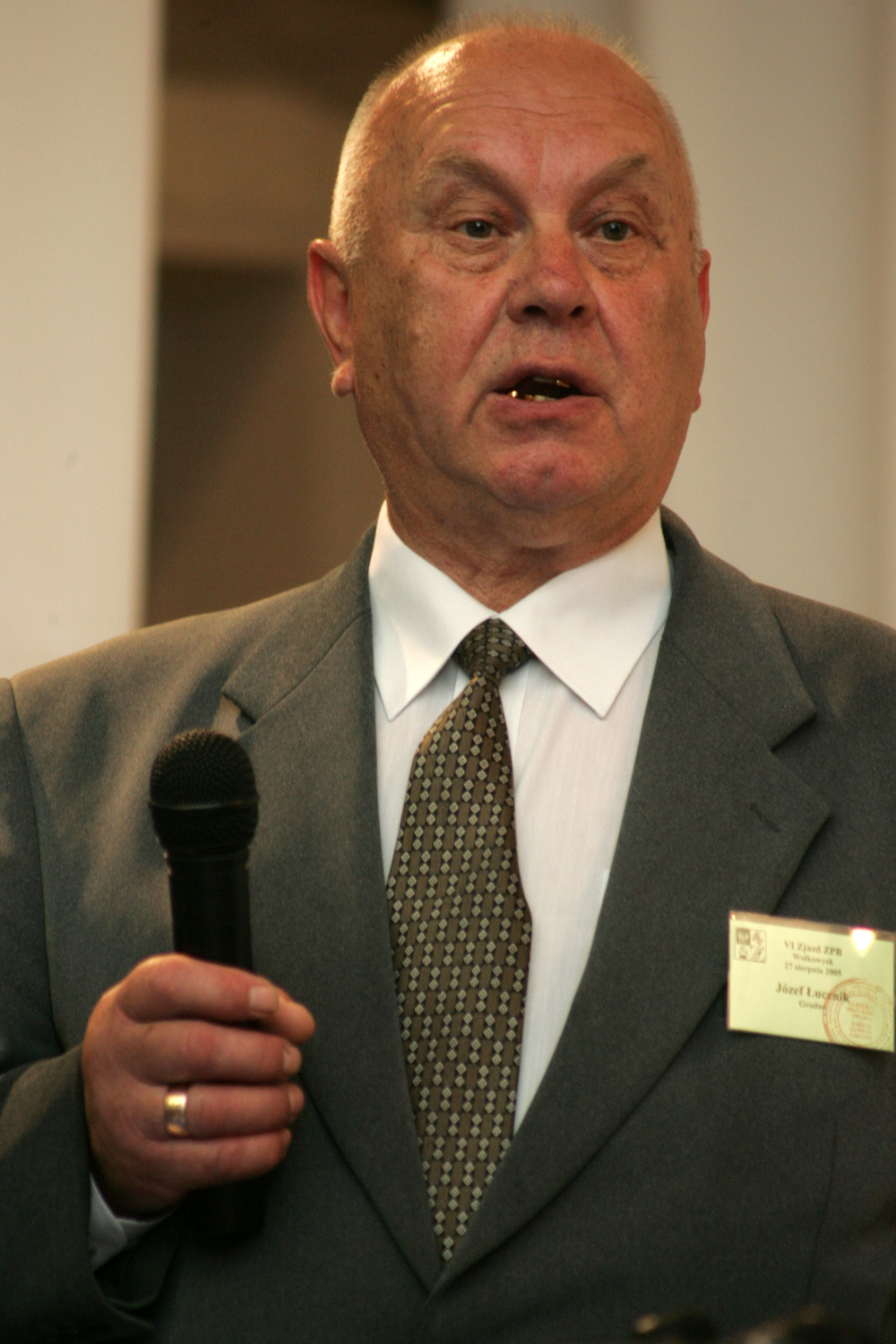 Jozef Lucznik, Chairman of the pro-Lukashenko's Union of Poles in Belarus